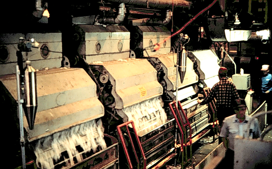 Cotton jins sorting cotton and cleaning